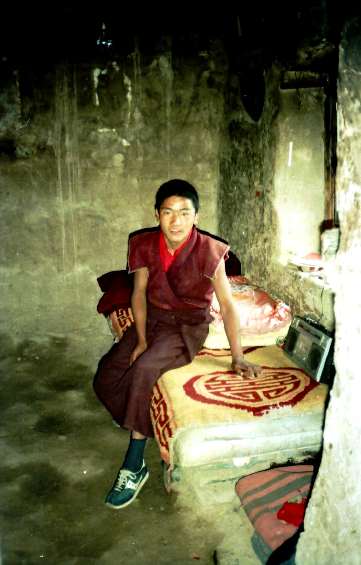 I took this photo myself on a visit to Yerpa, Tibet in 1993